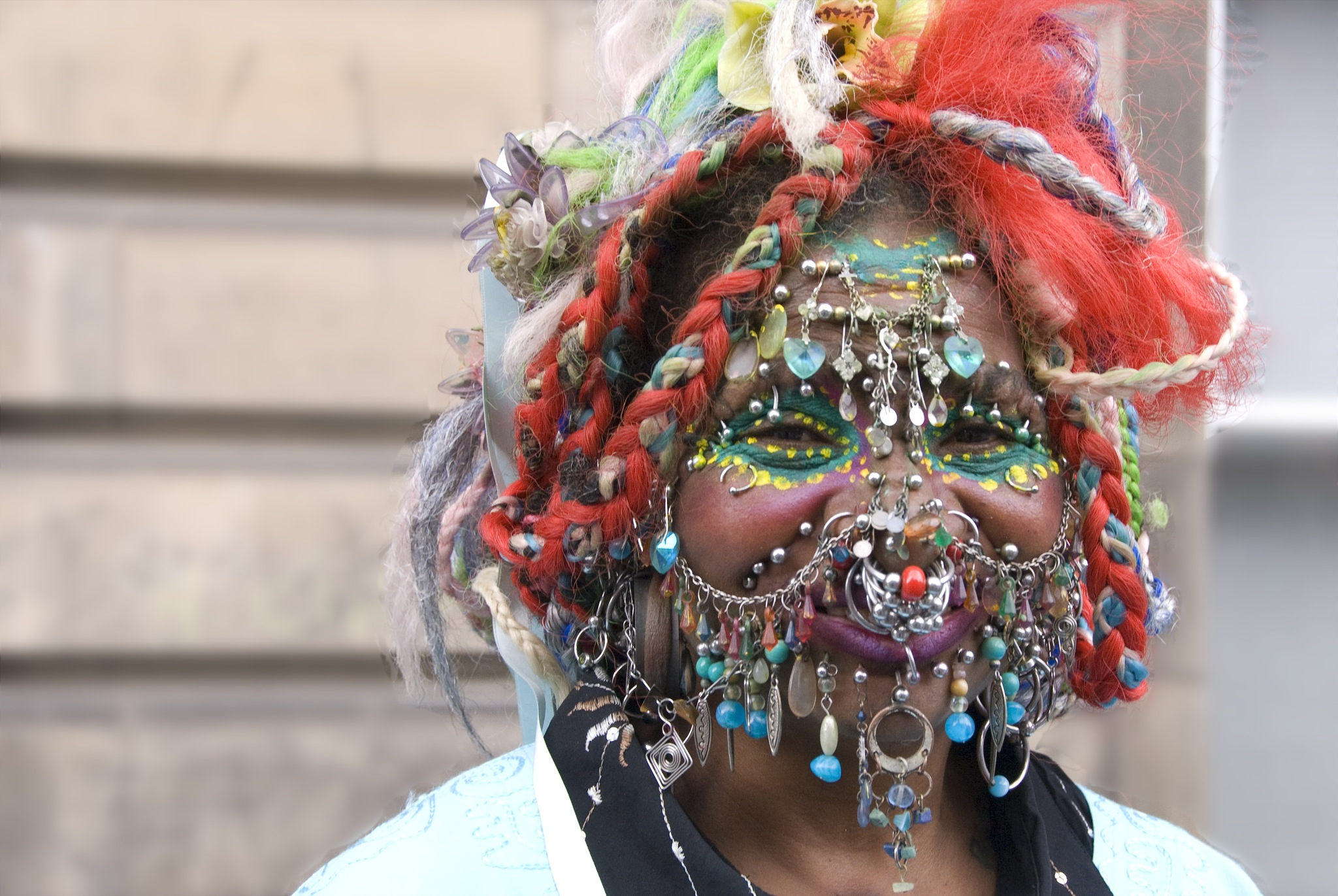 The world's most pierced woman